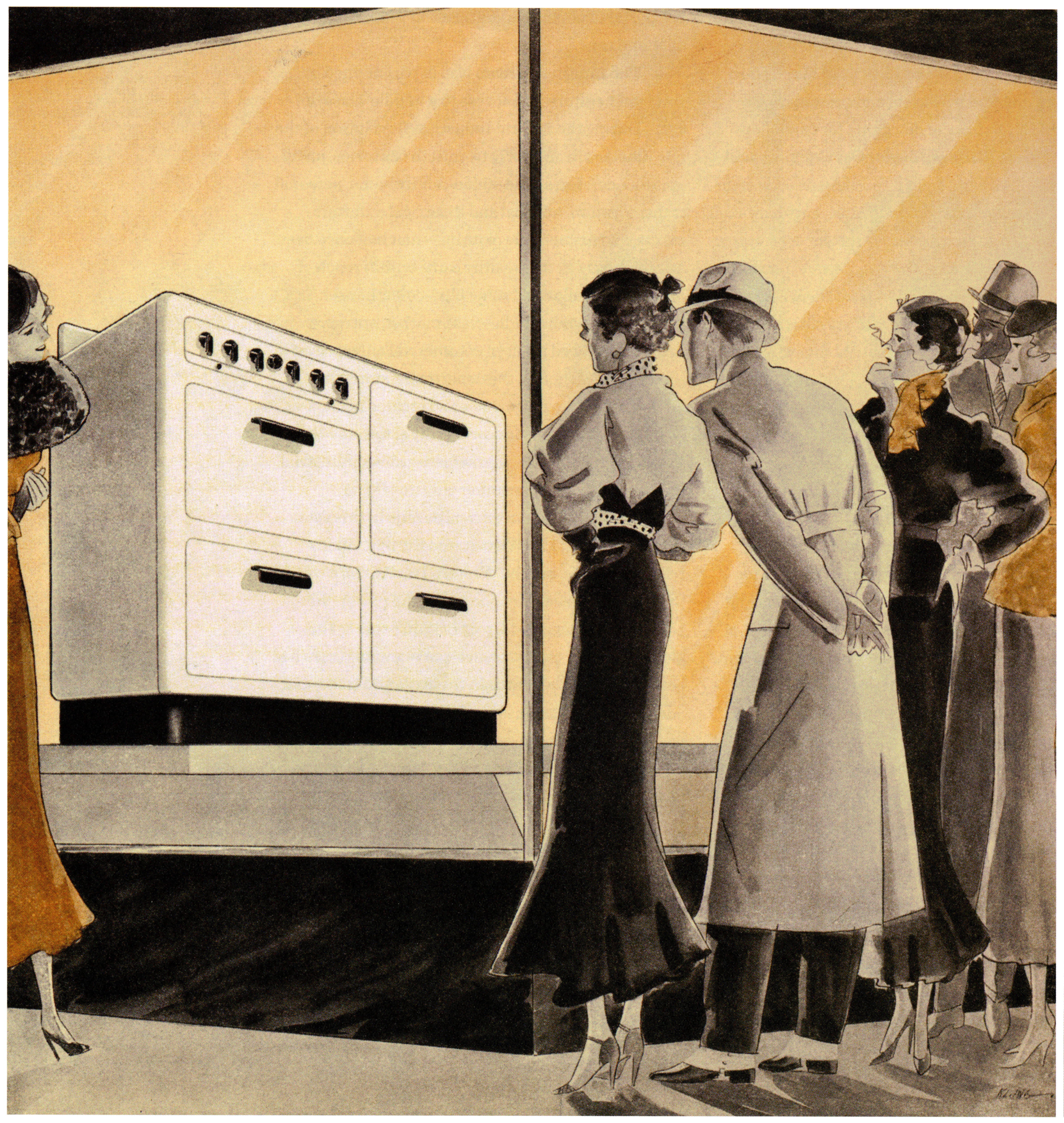 Acorn Gas Range publicity leaflet extract, c. 1932-33 Philadelphia Gas Works